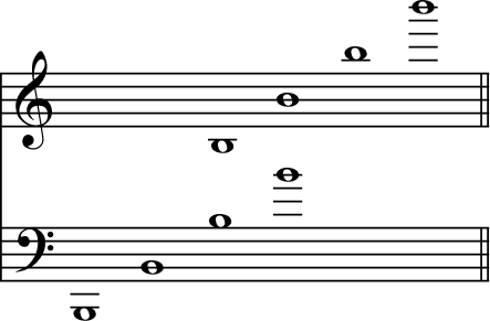 Notes, B